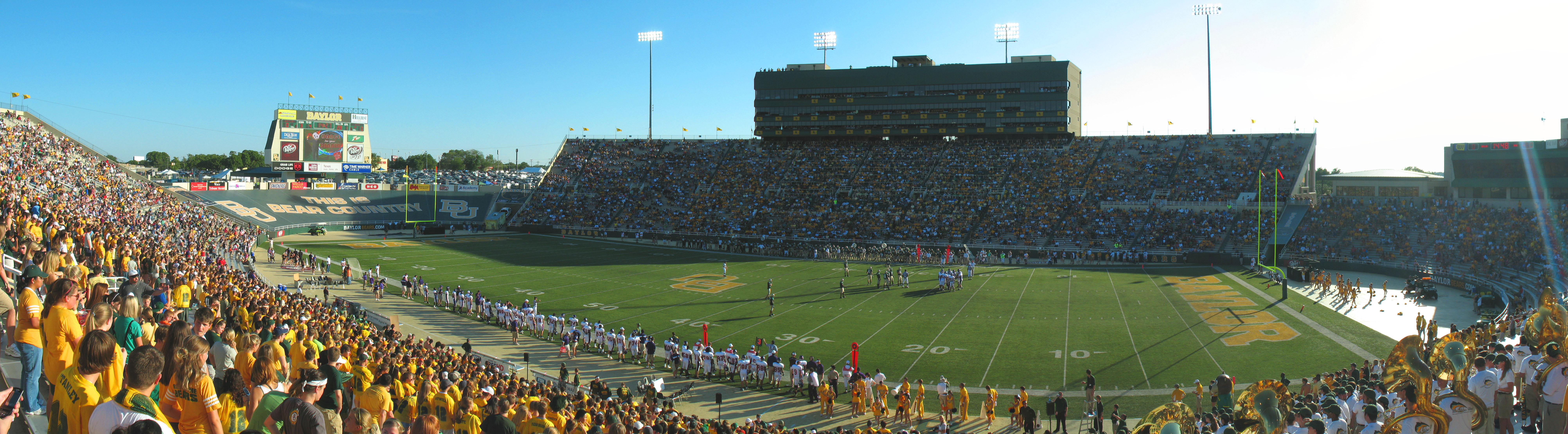 Baylor University's Field of play for football is Floyd Casey stadium in Waco Texas since 1950.